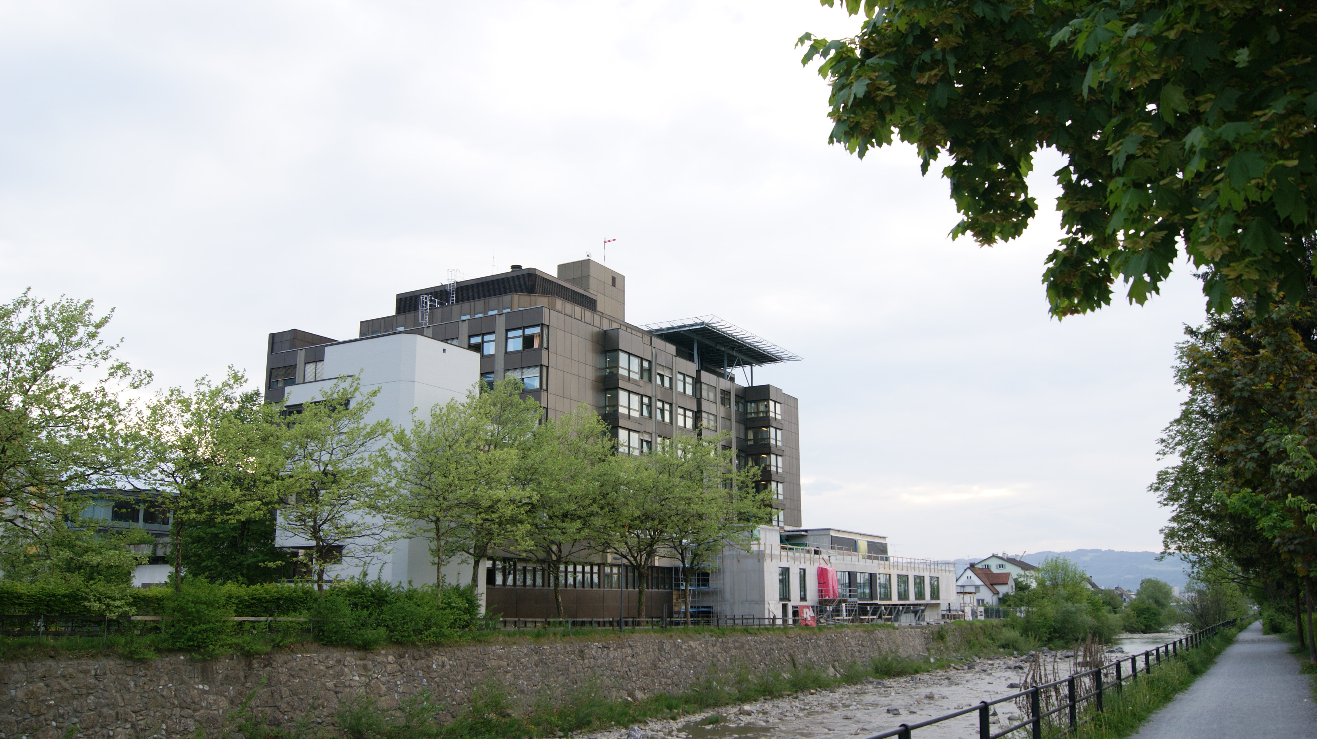 Hospital in Dornbirn, Vorarlberg, Austria.